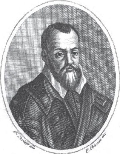 Rocco Pirri, Sicilian historian